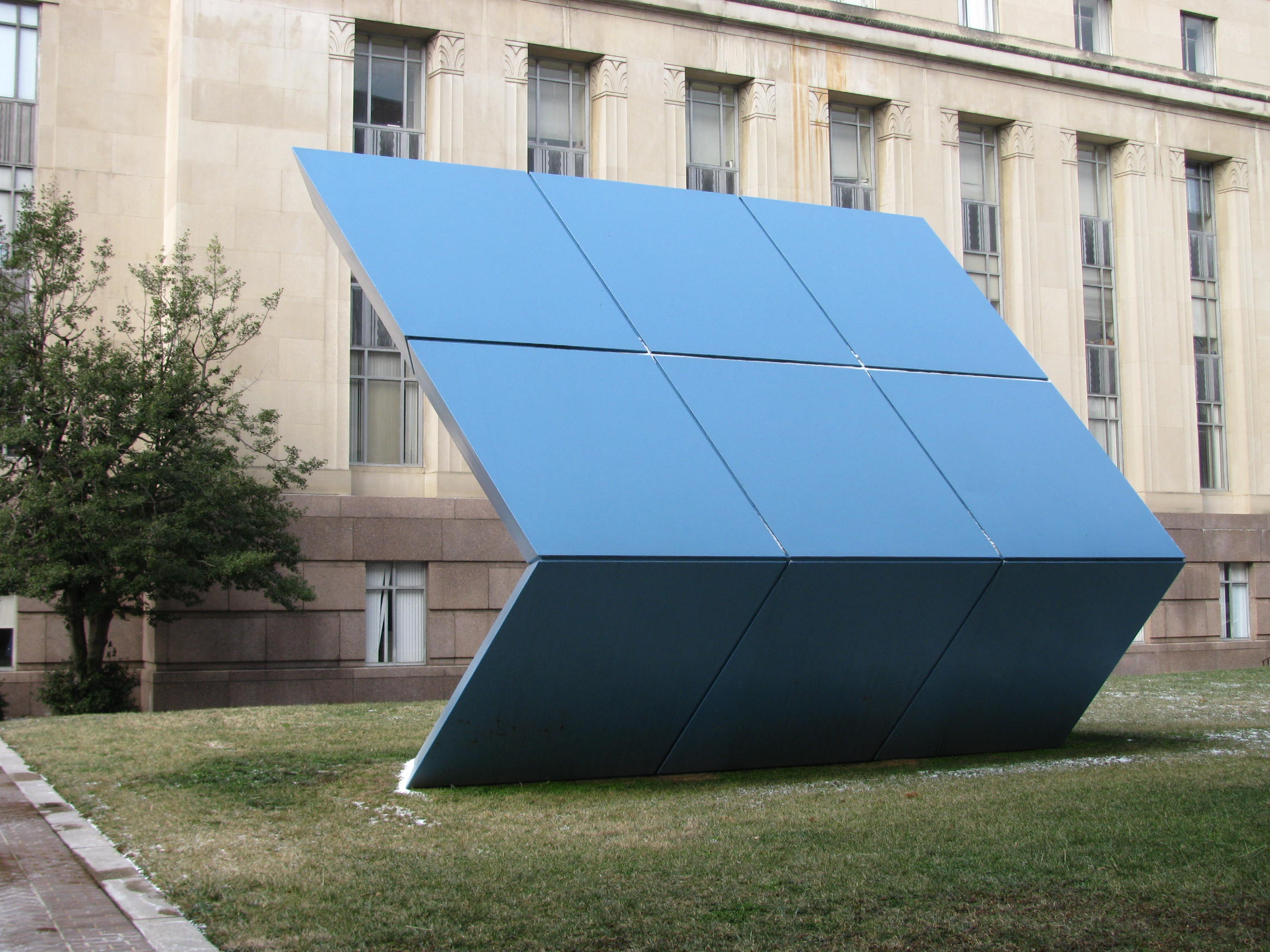 "She who must be obeyed," Tony Smith; Department of Labor Building, Washington, D.C. [1]